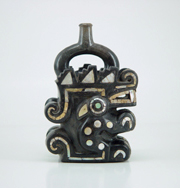 A ceramic stirrup-spout vessel with shell inlays, dating from 100–800 CE. Created by the Moche culture of Peru, it is in the collection of the Larco Museum. It is believed to represent a feline and to be associated with the moon.